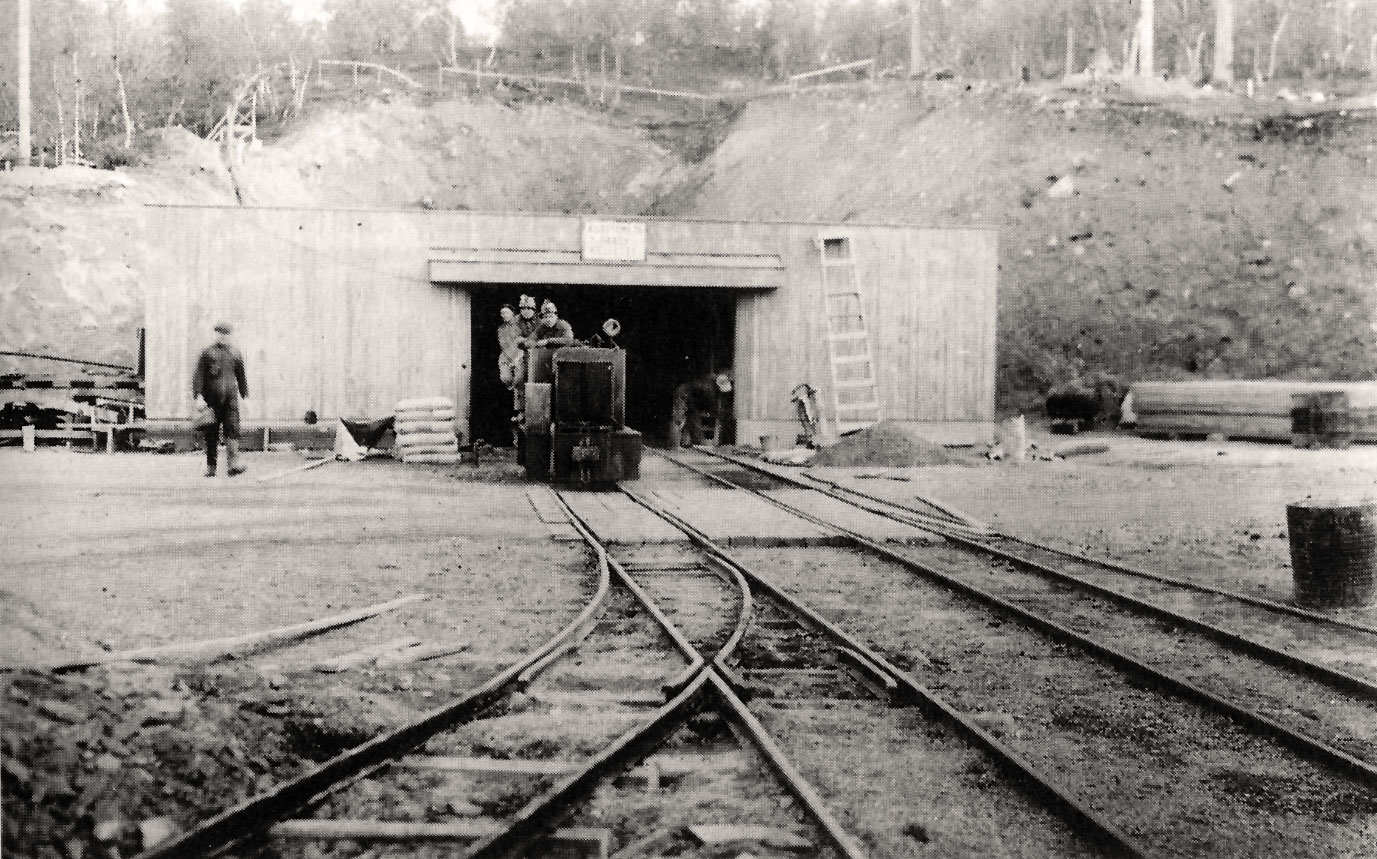 Mine adit of Kolosjoki nickel mines in Petsamo, Finland, during the late 1930's.